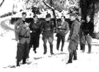 Oton Vrhunec-Blaž Ostrovrhar (1915-1945) med borci škofjeloškega odreda